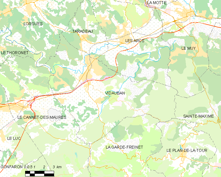 Map of French municipality Vidauban